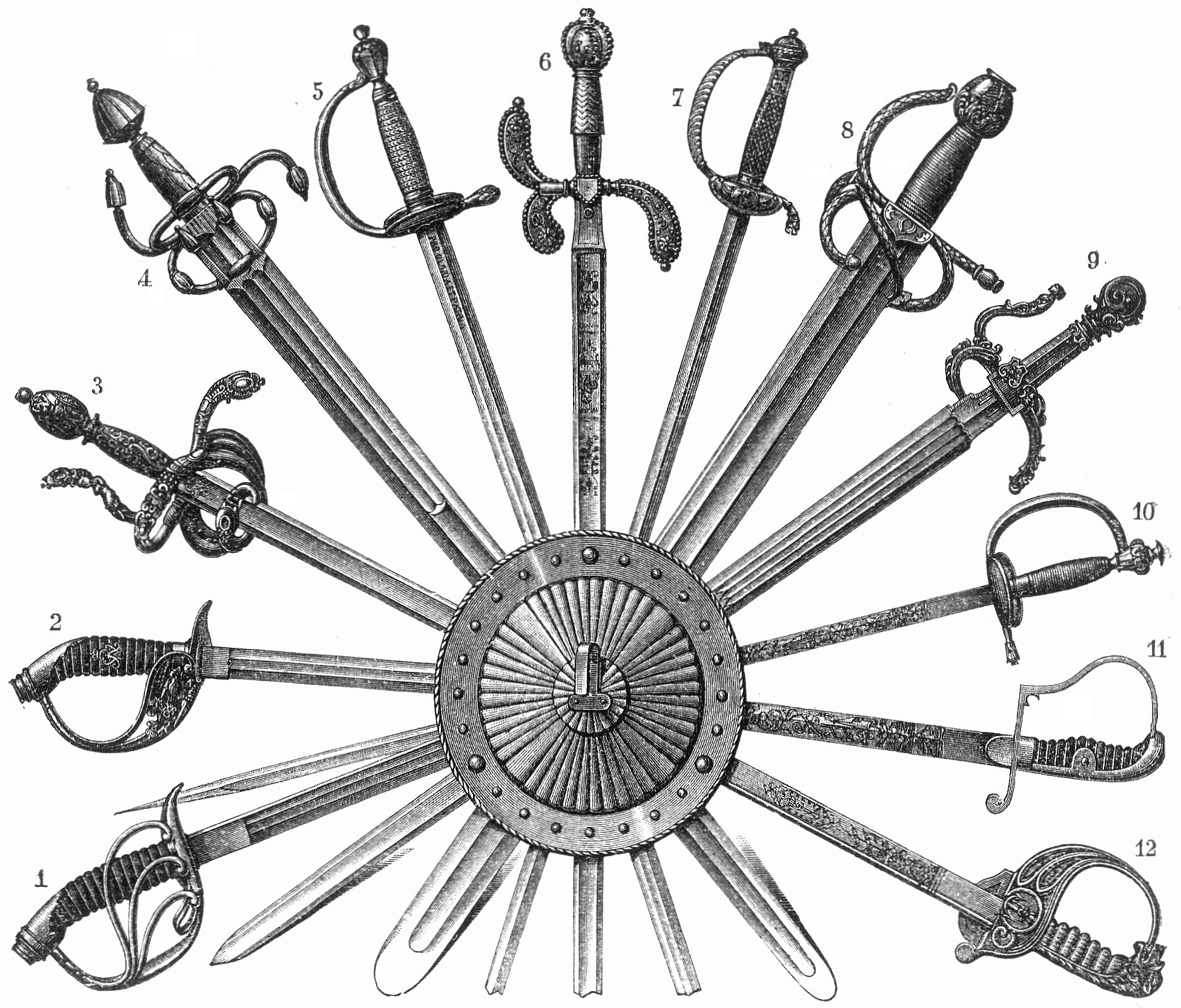 Epees - Fig. 1,2,12. New Prussian Epees. – 3 & 4 Epee Phillip II. of Spain. – 5. Epee Frederick the Great. – 6. German epee of Duke Friedrich Heinrich of Nassau. – 7. Epee Napoleon I. – 8. Blade of the Colada of the Cid 16th century. – 9. Toledo epee. – 10 & 11 Old Prussian Epees. Center: shield.